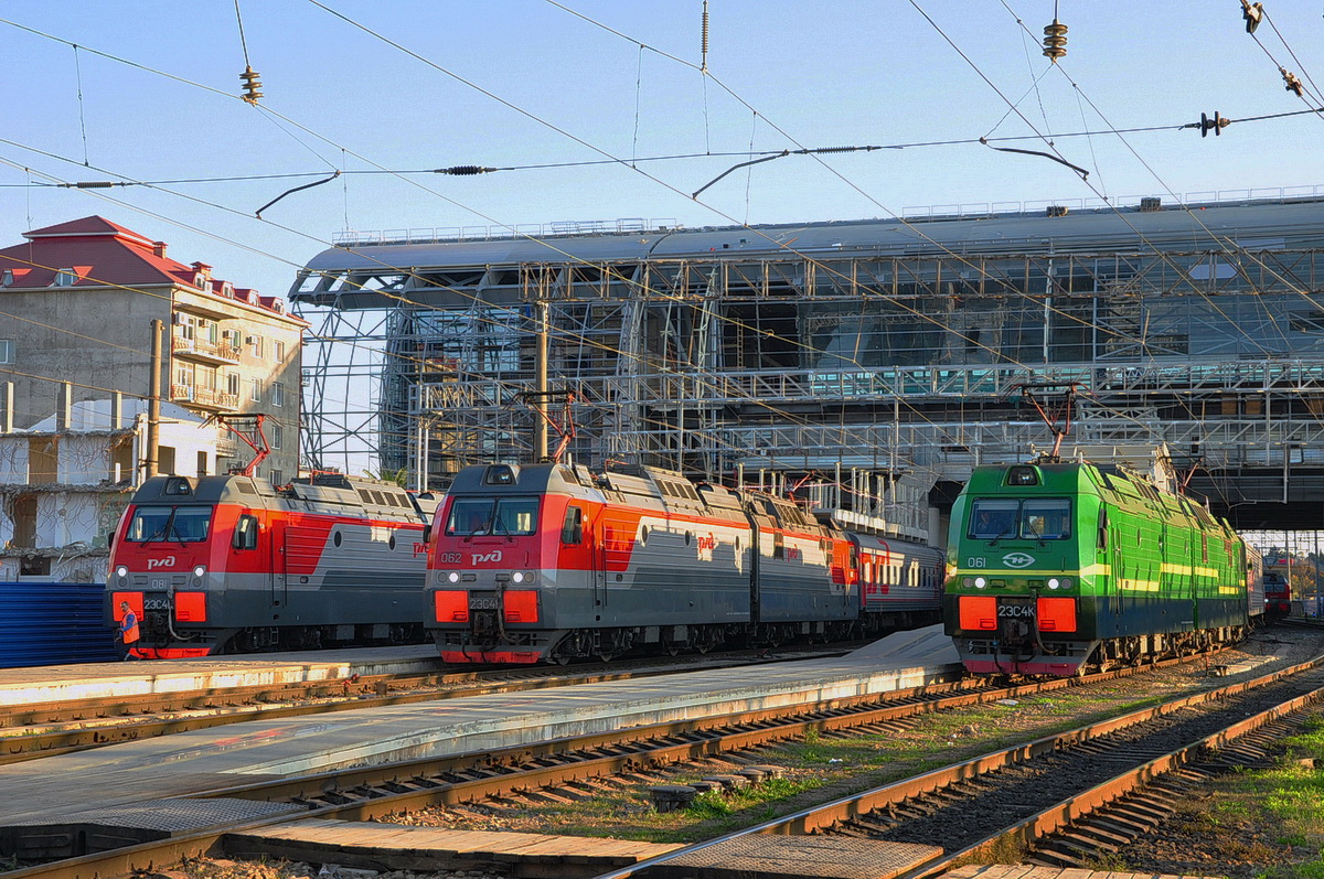 Electric locomotives 2ES4K-081, 062 and 061 Adler station, Krasnodar region, Russia